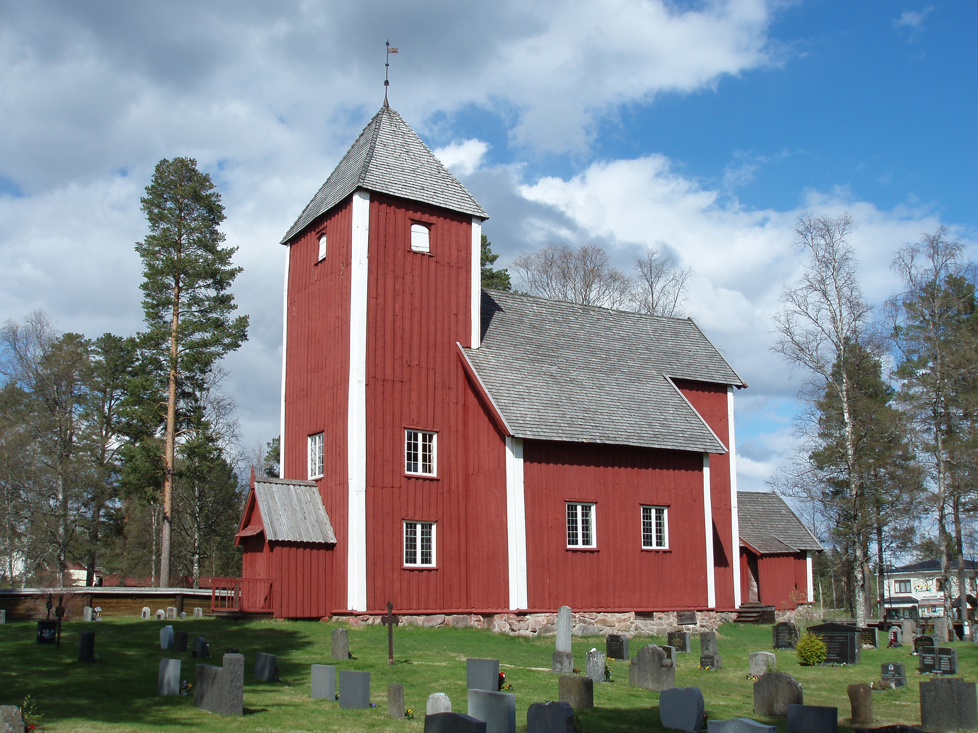 Nordre Osen Old Church in Åmot municipality in Hedmark county in Norway.